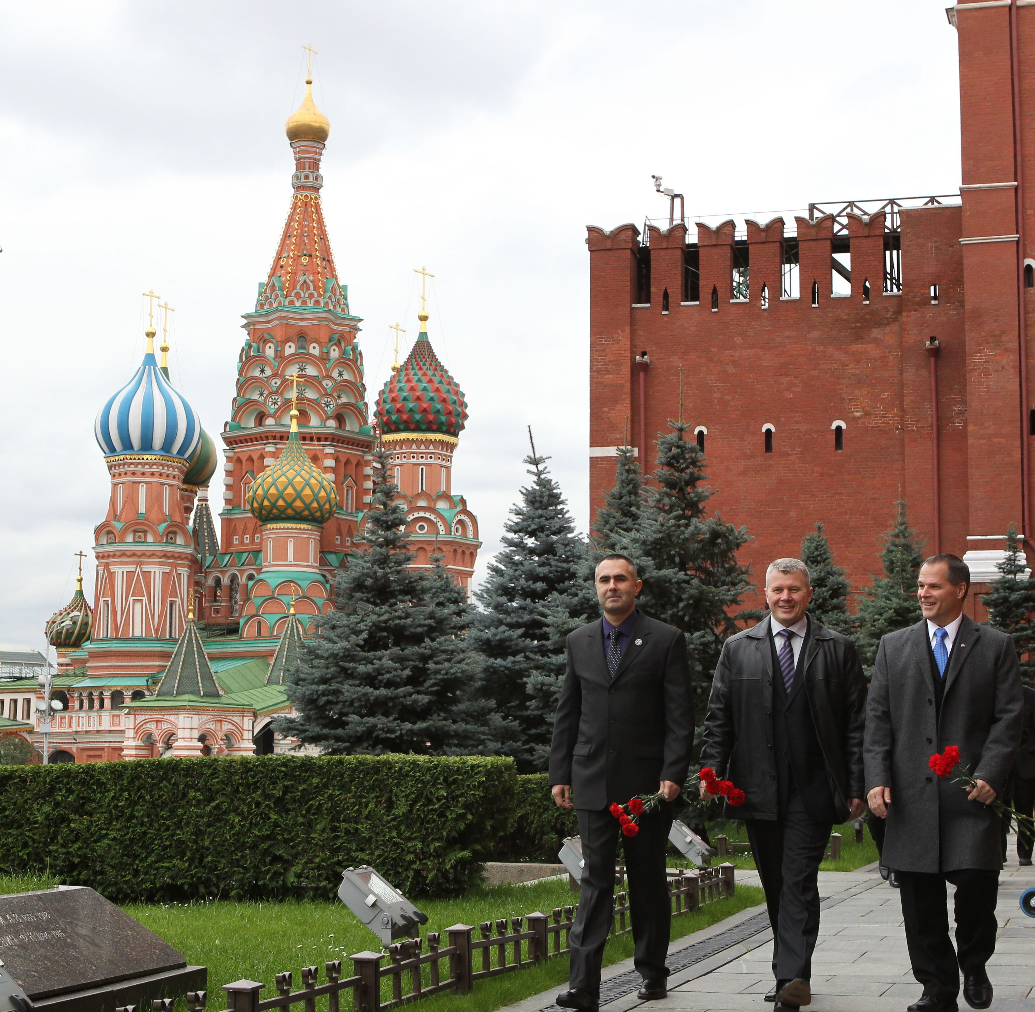 With St. Basil's Cathedral providing a fitting backdrop, the Expedition 33 prime crew members arrive at the Kremlin Wall in Moscow's Red Square Sept. 25, 2012 to conduct the traditional laying of flowers at the site where Russian space icons are interred, including Yuri Gagarin, the first human to fly in space, and Sergei Korolev, Russia's Great Designer. From left to right are Russian Flight Engineer Evgeny Tarelkin, Soyuz Commander Oleg Novitskiy and NASA Flight Engineer Kevin Ford. The trio is scheduled to launch Oct. 23 from the Baikonur Cosmodrome in Kazakhstan in their Soyuz TMA-06M spacecraft for a five-month mission on the International Space Station.